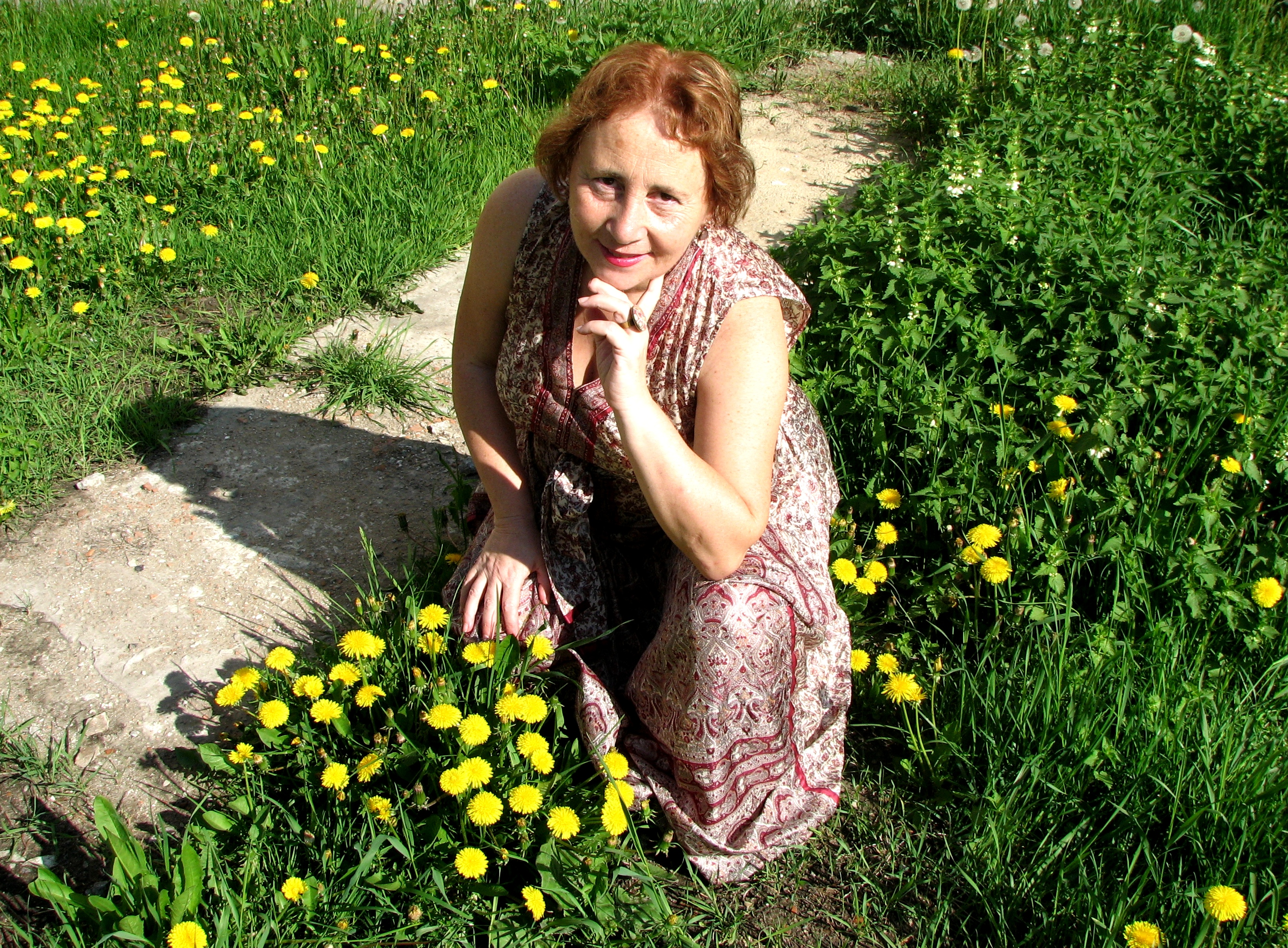 Irina Stelmach is Estonian journalist.